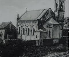 kisha e Vau i DEJES